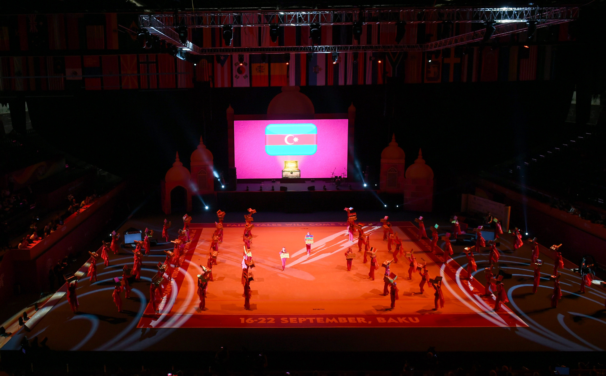 Ilham Aliyev attended opening ceremony of 37th FIG Rhythmic Gymnastics World Championships in Baкu